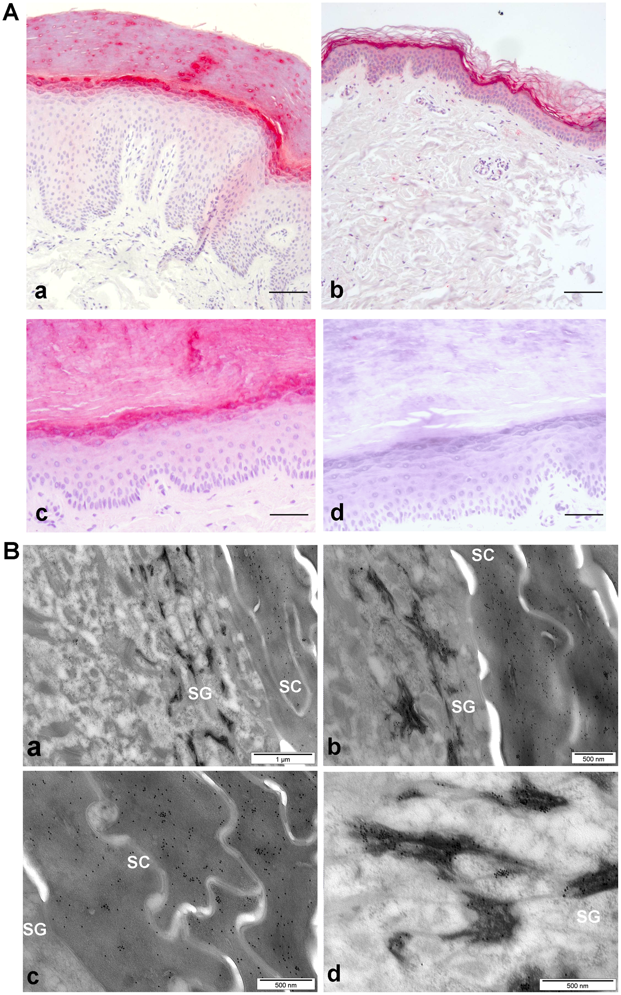 igure 5. Localization of filaggrin-2 in human epidermis. (A) Immunohistochemical analyses of FLG2 in human skin sections. Healthy skin sections from palmar (panel a; scale bar, 60 µm) and plantar (panel c; scale bar, 120 µm) sites as well as the upper leg region (panel b; scale bar, 60 µm) were stained with anti-FLG2 antibody. Specificity of antibody was confirmed by blocking the antibody with the antigen (panel d; scale bar, 60 µm). Representative experiments out of three are shown. (B) Post-embedding immunoelectron microscopy of FLG2 (10 nm gold) in healthy foreskin. FLG2 labels are present in both granular and cornified cells (panels a and b). Note that FLG2 labels are either diffusely dispersed in the cytoplasm (panel c) or grouped as keratohyalin granules (panel d). SG, stratum granulosum; SC, stratum corneum.